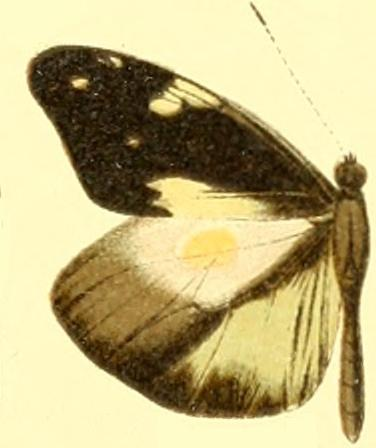 Plate from The Macrolepidoptera of the World. Vol. 5. Pieridae Dismorphiinae: Dismorphia lewyi